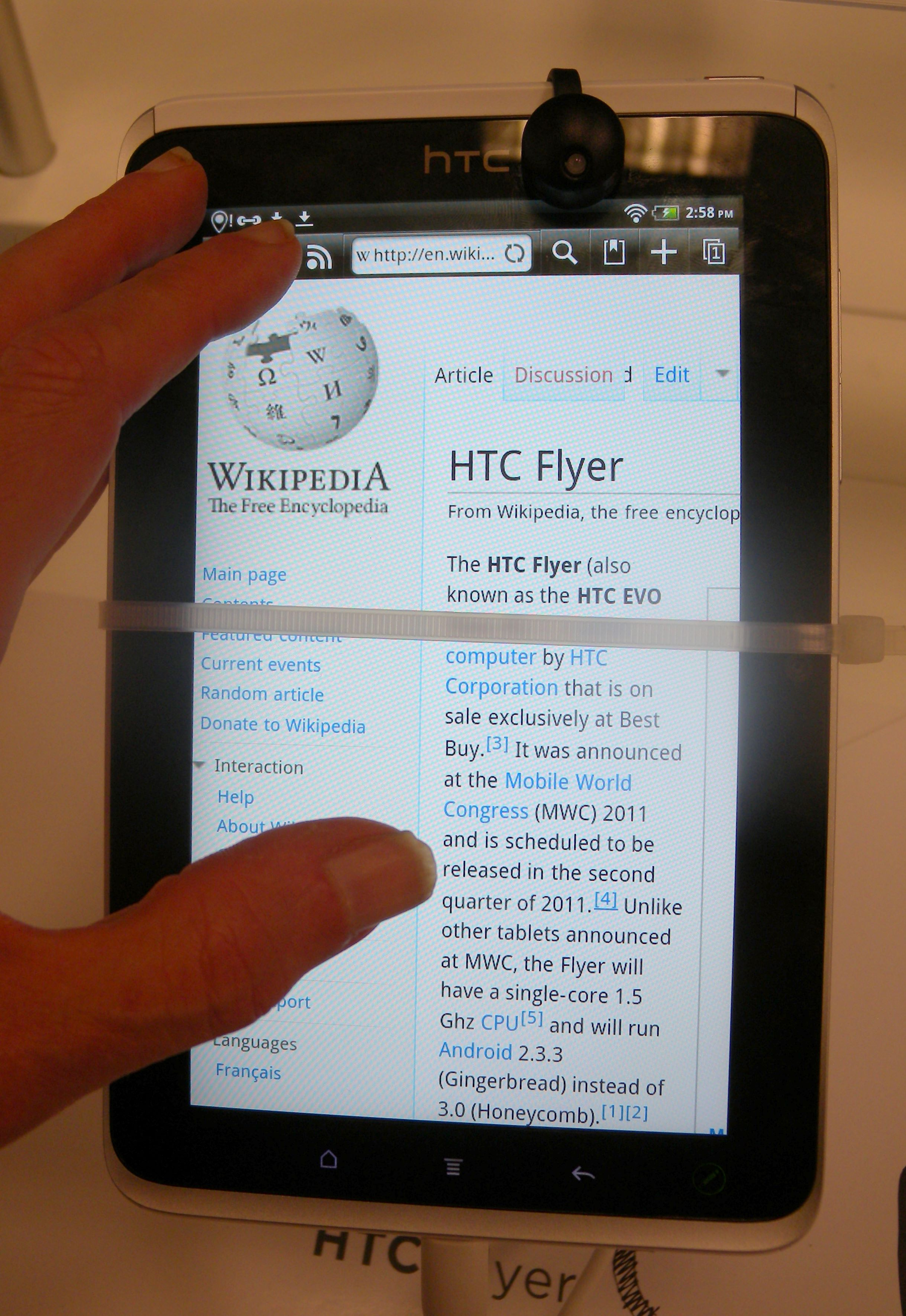 HTC Flyer tablet computer tied down at Best Buy